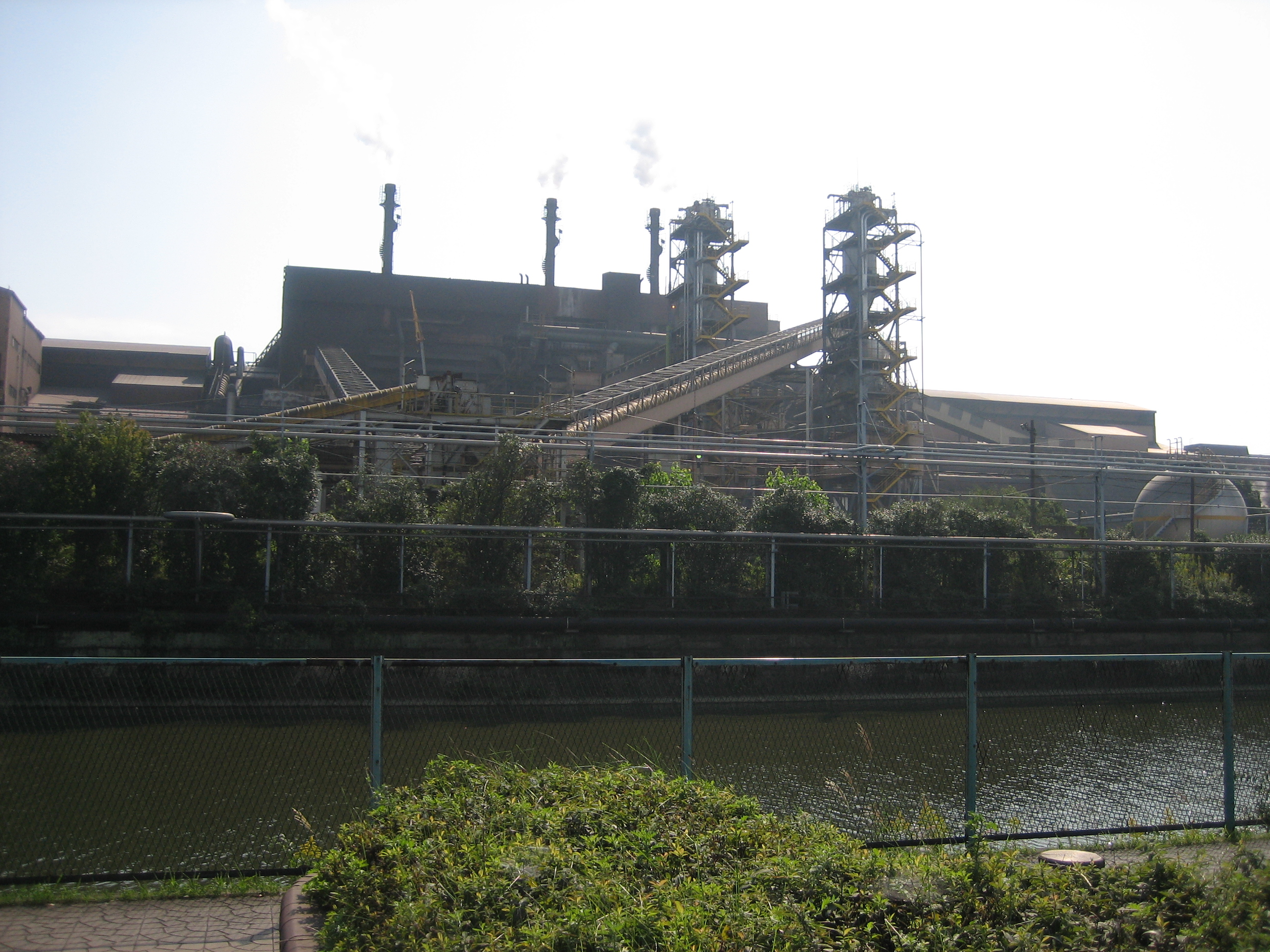 Nippon Steel Corporation Hirohata steelworks.